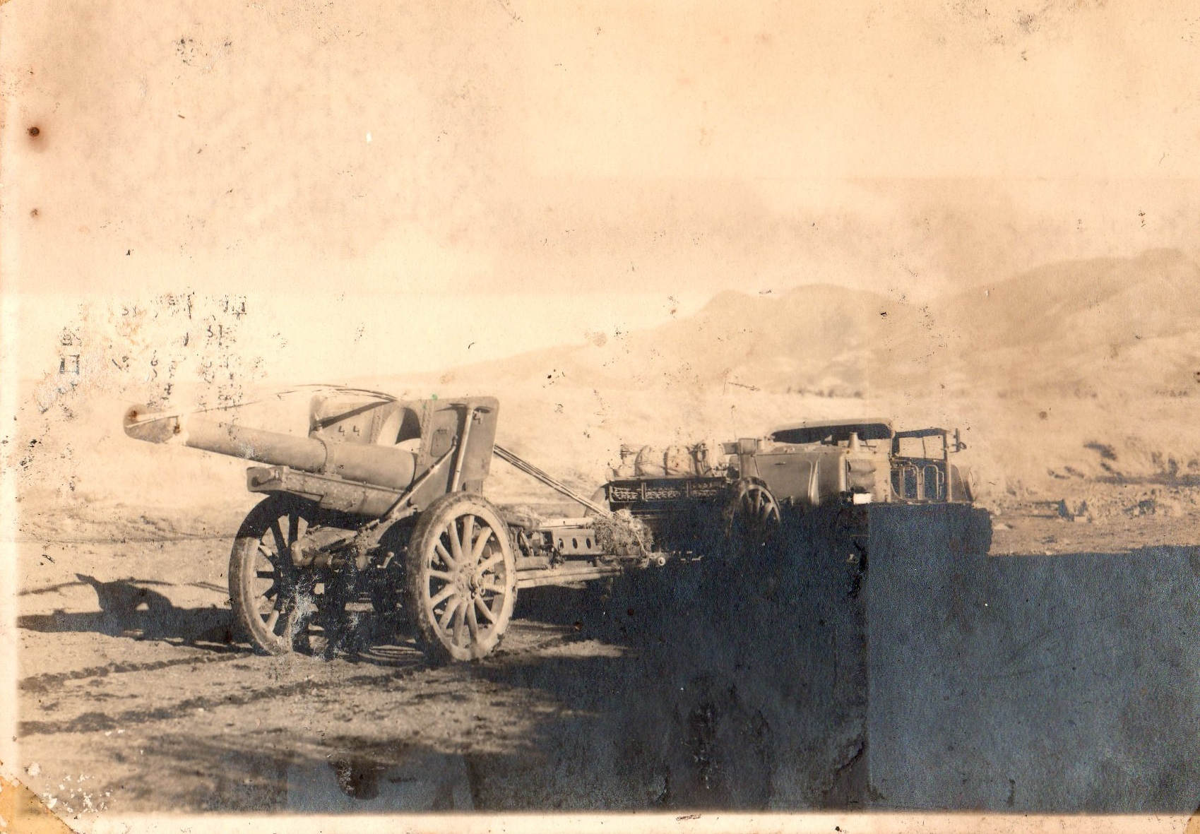 昭和15年 満州 齋藤傳義蔵